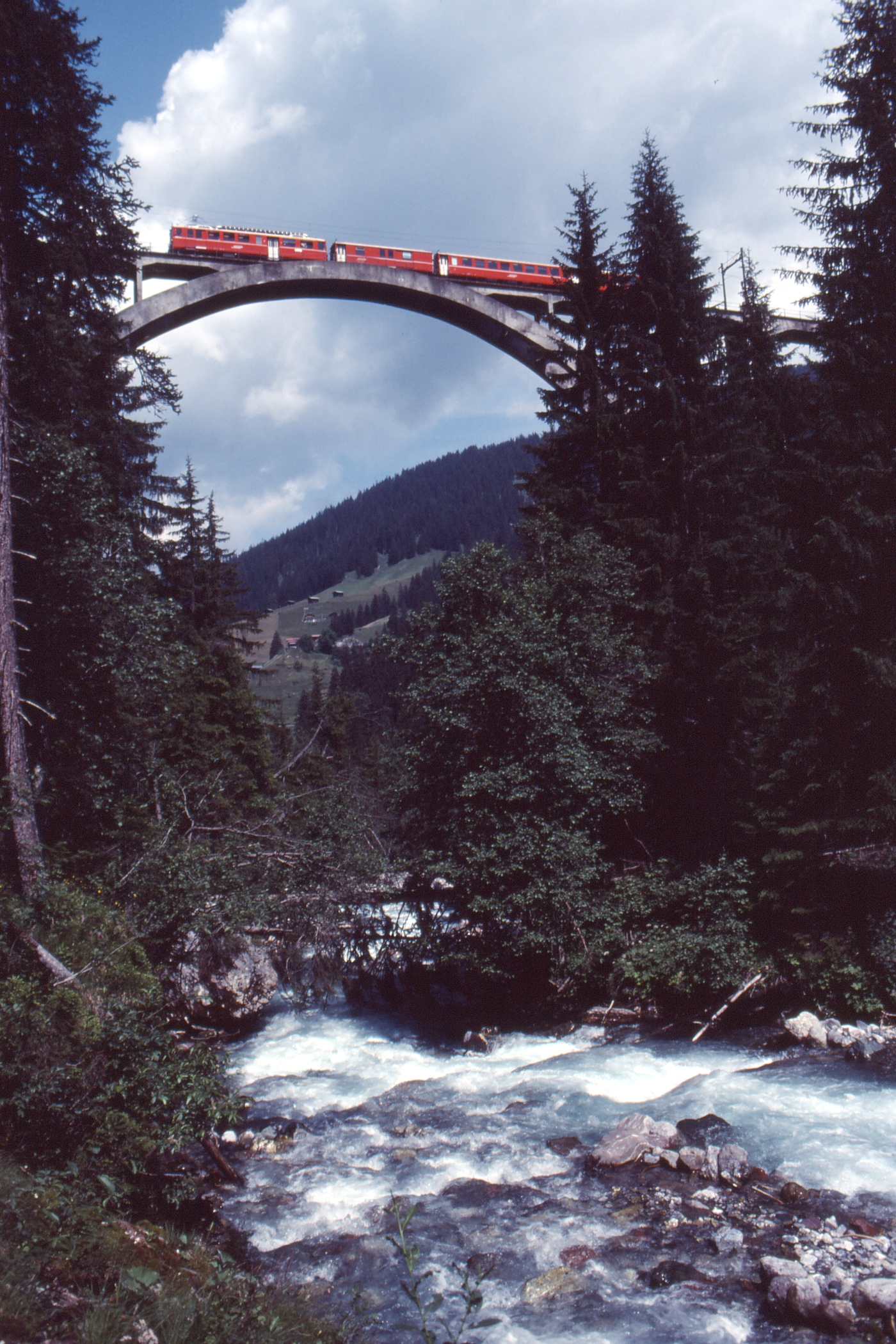 RhB ABDe 4/4 Chur - Arosa train on the Langwieserviadukt